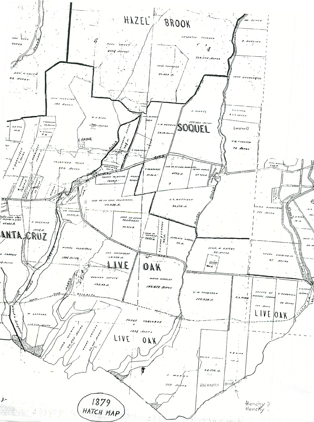 1879 Hatch Map of the Live Oak/ Pleasure Point area Pleasure point 03:22, 1 November 2007 (UTC)